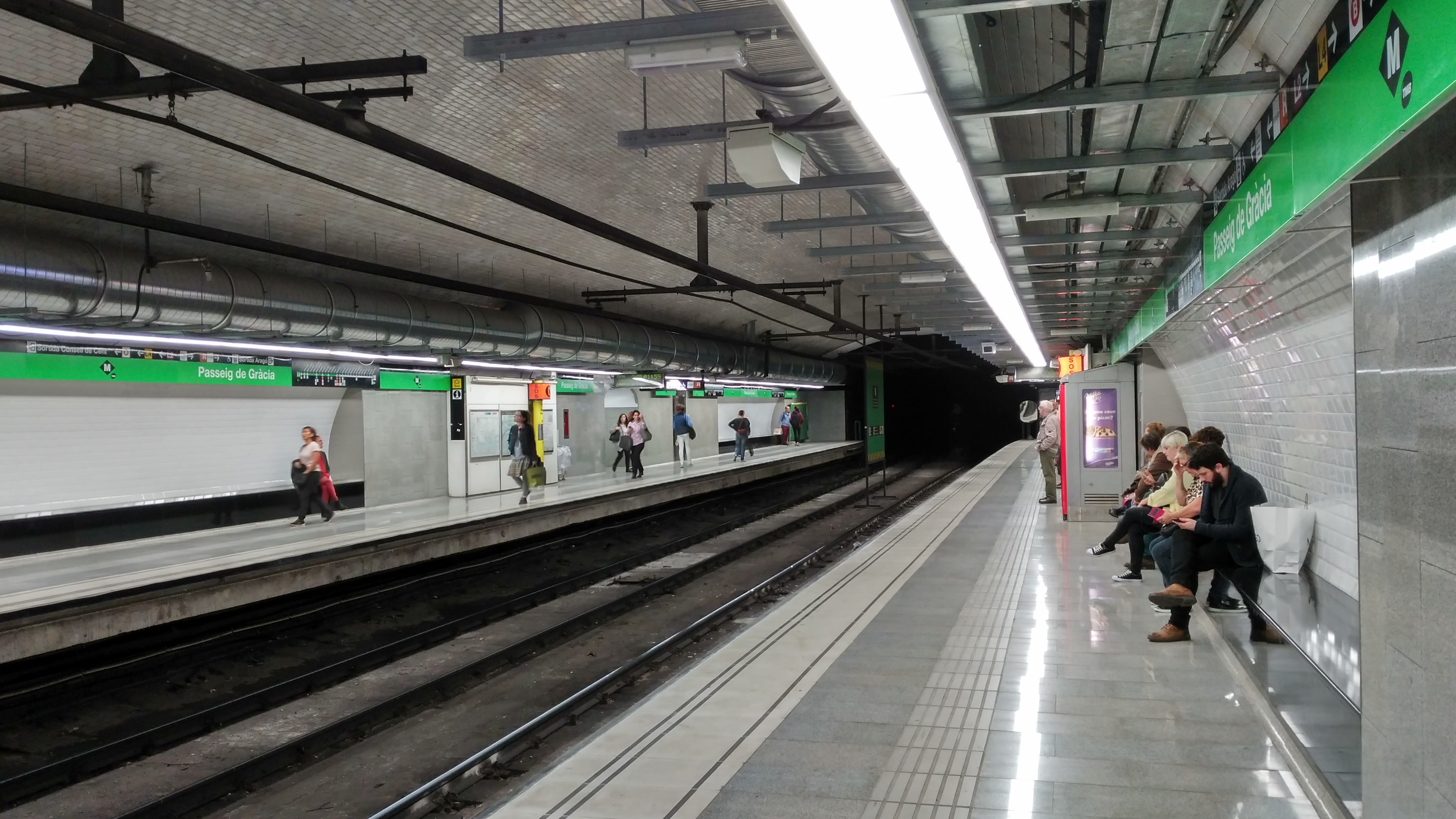 L3 platforms at Passeig de Gràcia after the 2017 renovation works